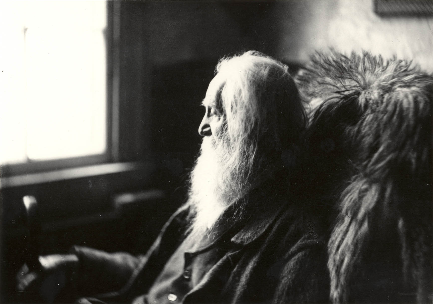 Walt Whitman photographed in profile at his home in Camden, New Jersey.